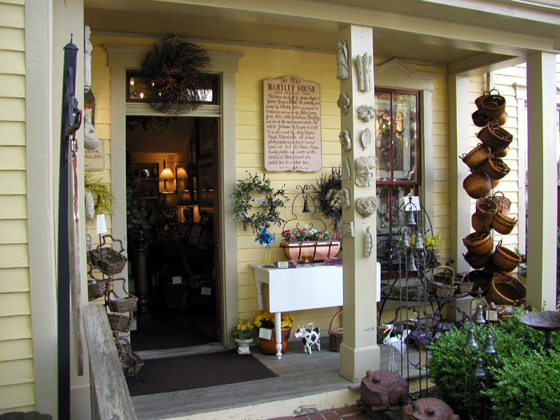 Image of the front entrance into the shop within the Bartley House (built 1886) in Nashville, Indiana.